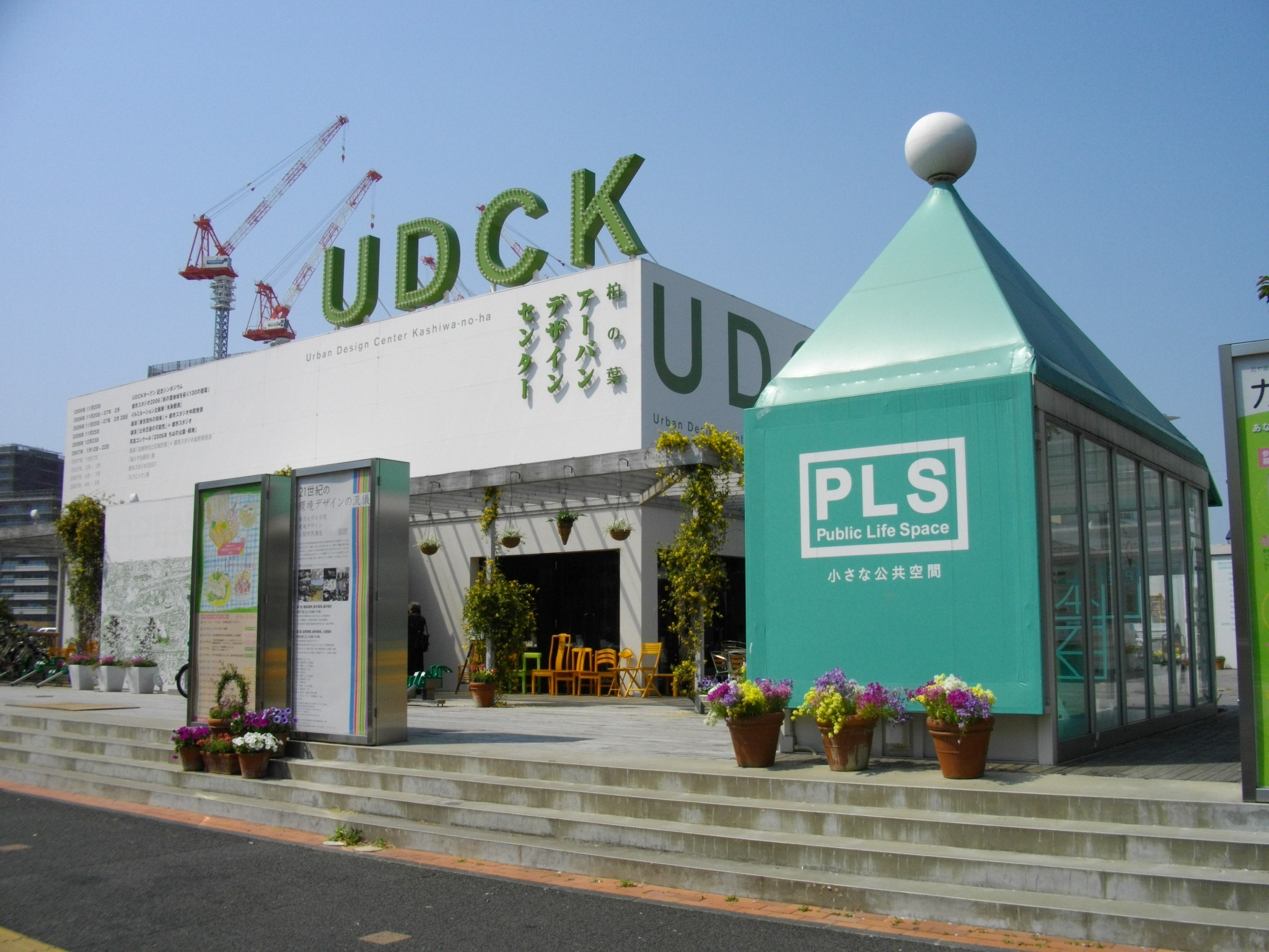 Urban Design Center Kashiwa-no-ha